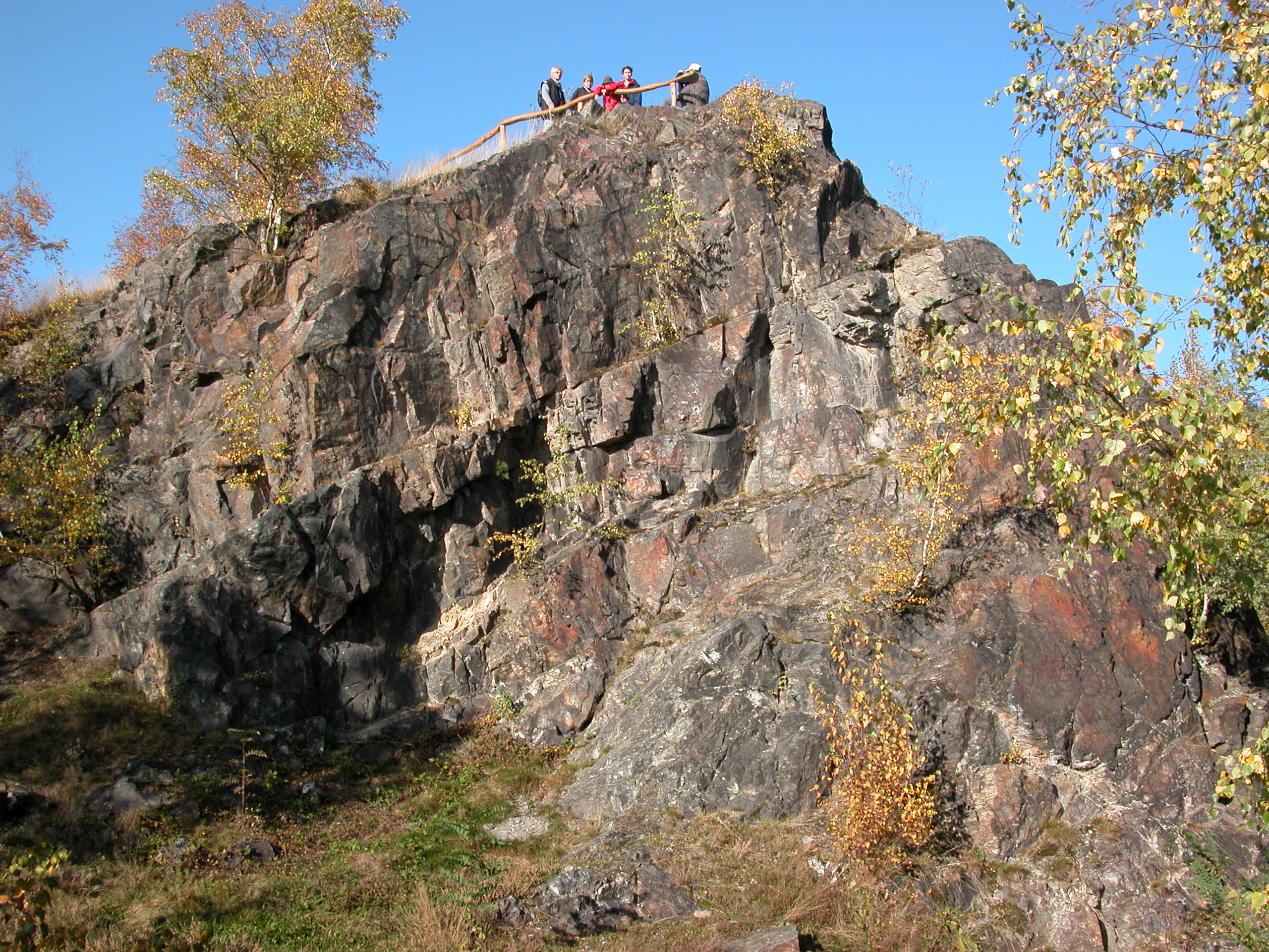 Kremenac hill in the Brasy village, view point.